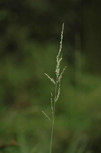 Picture taken in Commanster, Belgian High Ardennes . Species: Poa chaixii